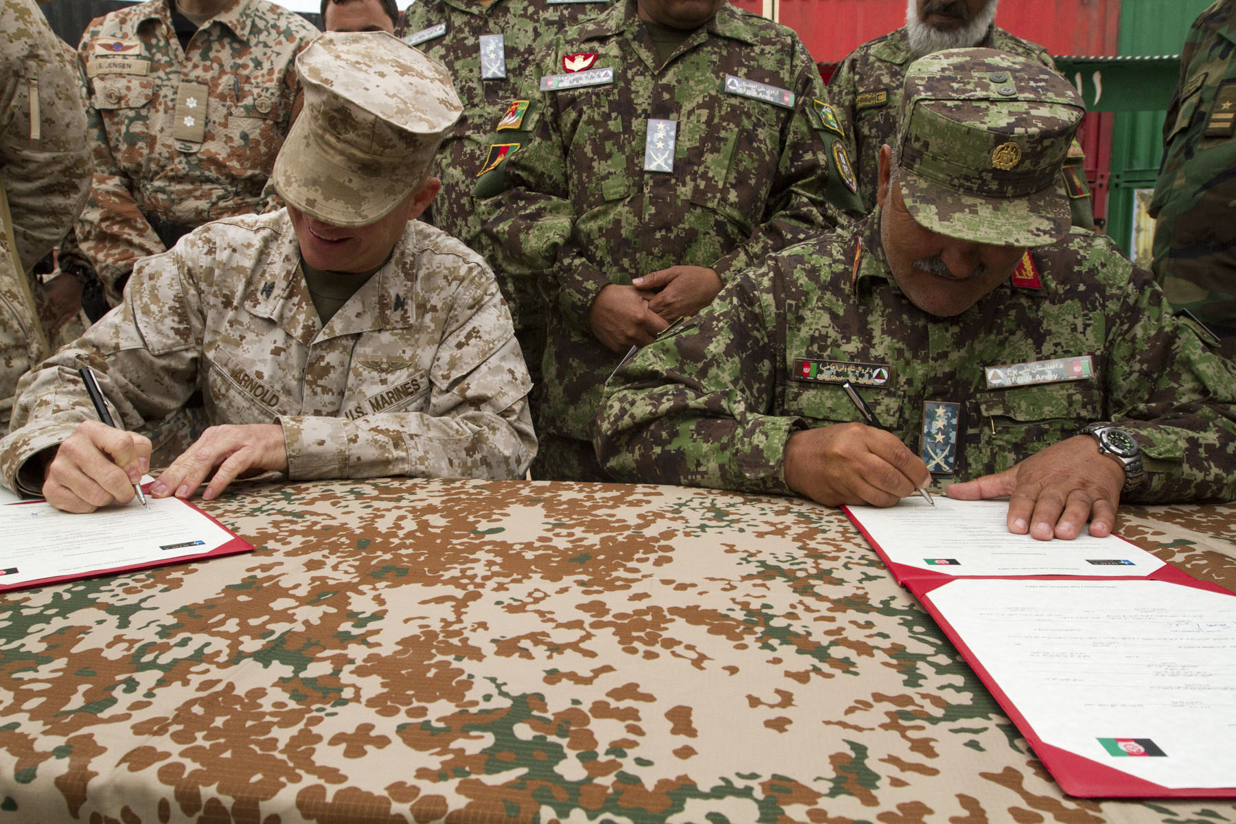 U.S. Marine Corps Col. Scott Arnold, left, commander of Regional Support Command-Southwest, NATO Training Mission-Afghanistan, and Afghan National Army Lt. Col. Shah Wali Zazai, commandant of the Regional Military Training Center-Southwest, sign transition documents during a transition ceremony at RMTC-SW in Helmand province, Afghanistan, Dec. 26, 2012.